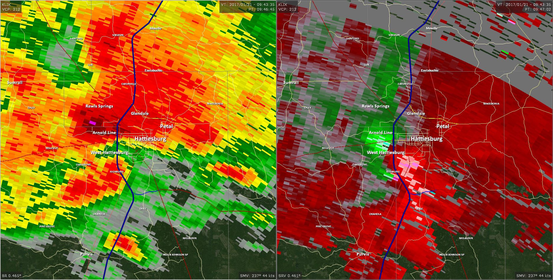 Doppler radar scan of the EF3 tornado as it was striking Hattiesburg.